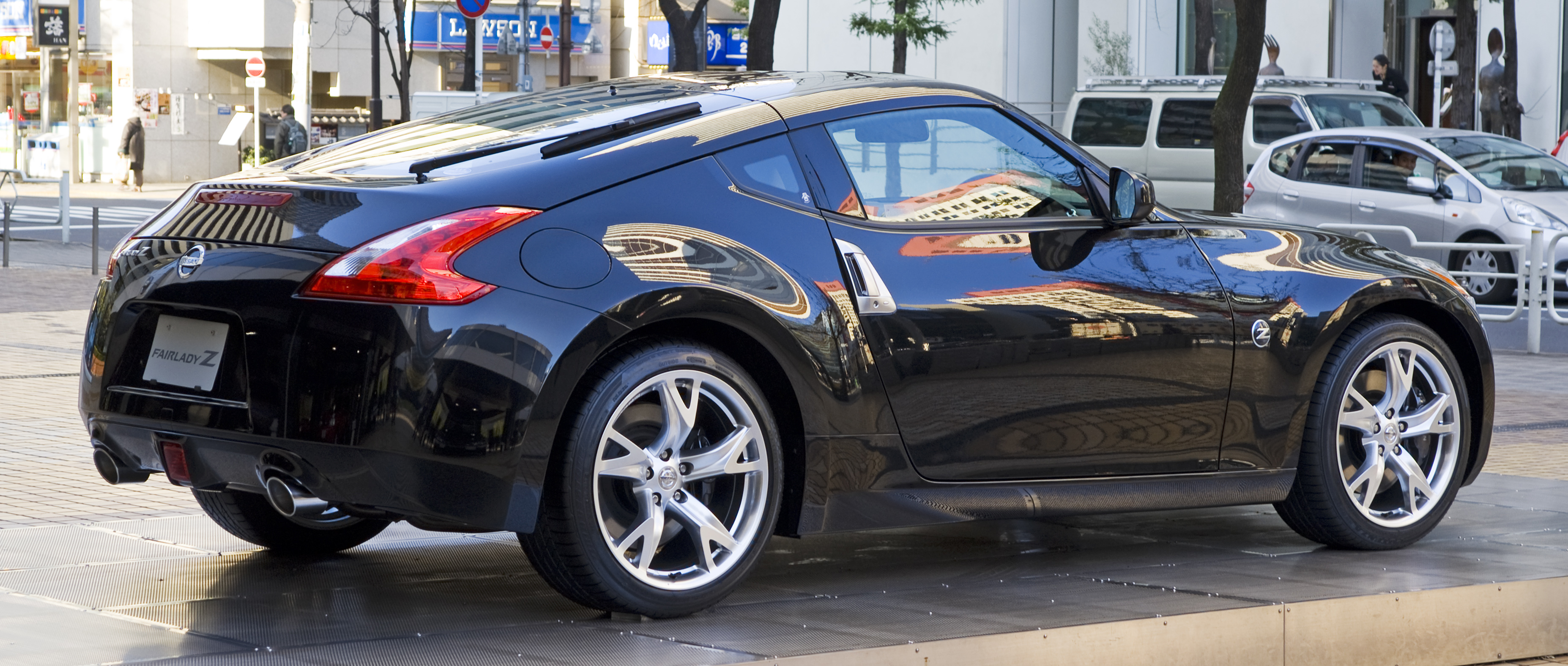 2009 Nissan Z34 Fairlady Z (370Z) photographed in Nissan Gallery (Chuo, Tokyo)